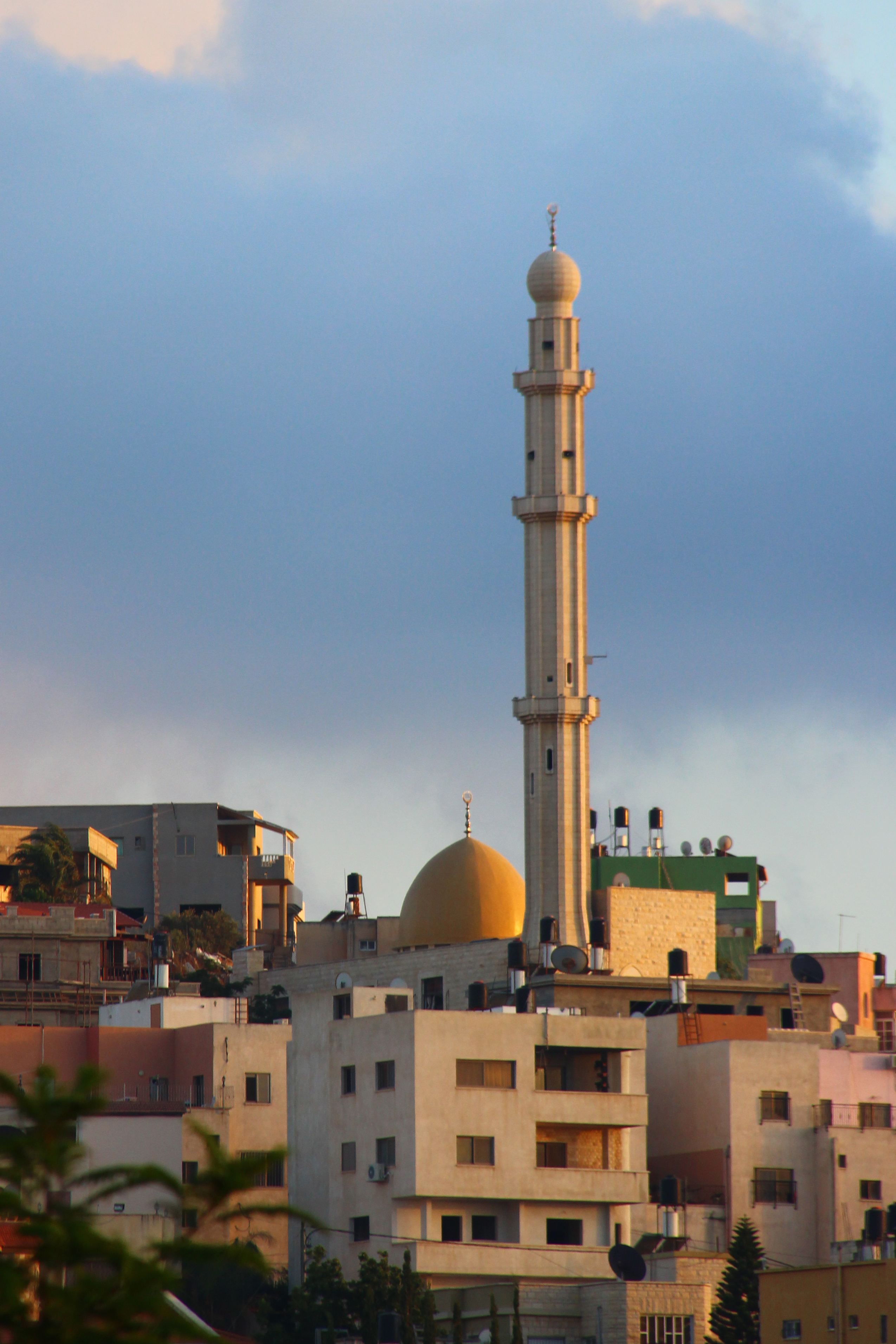 Ibn Taymiyyah mosque - Umm al-Fahm